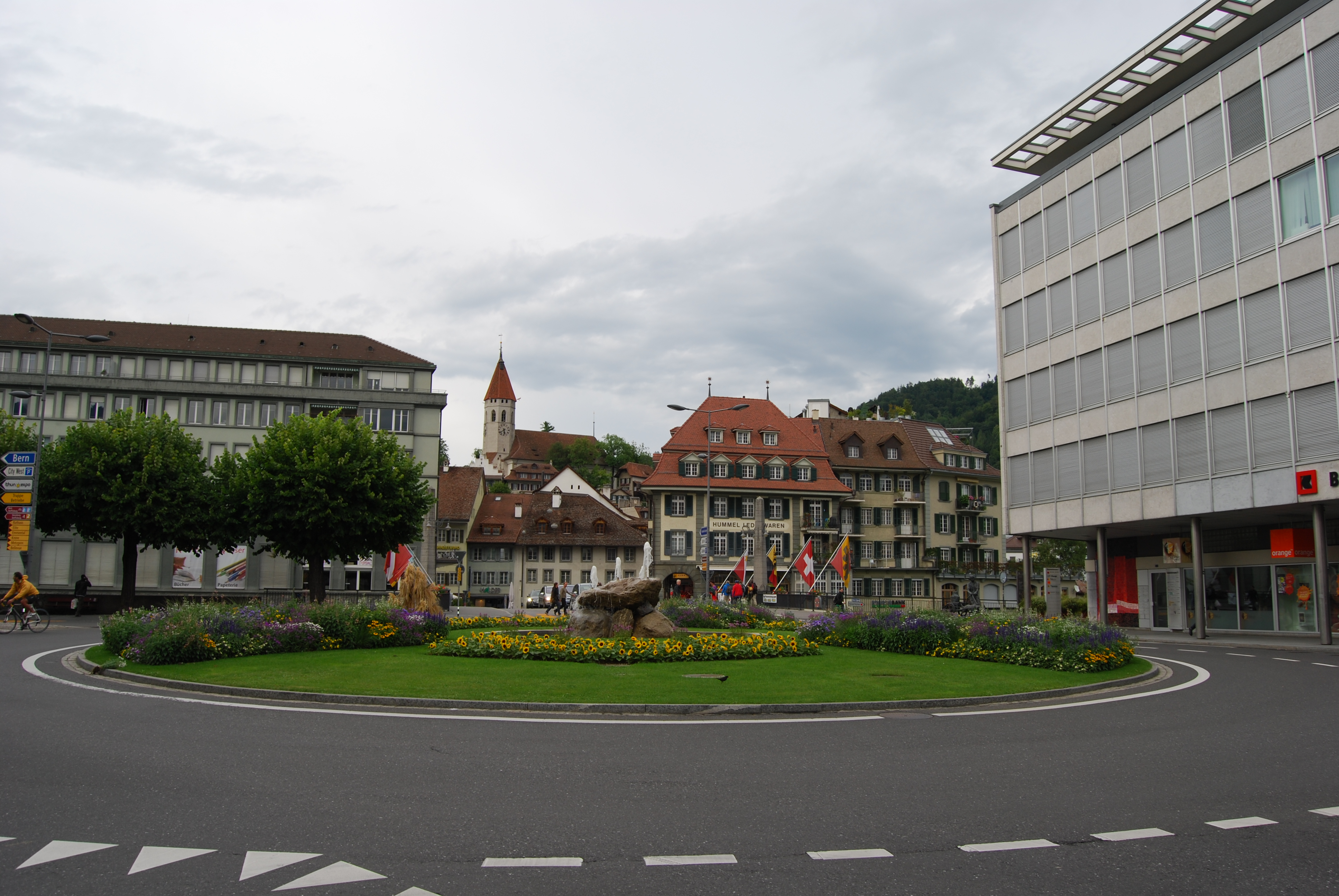 Thun, canton of Bern, SwitzerlandEsperanto: Thun, Kantono Berno, Svislando